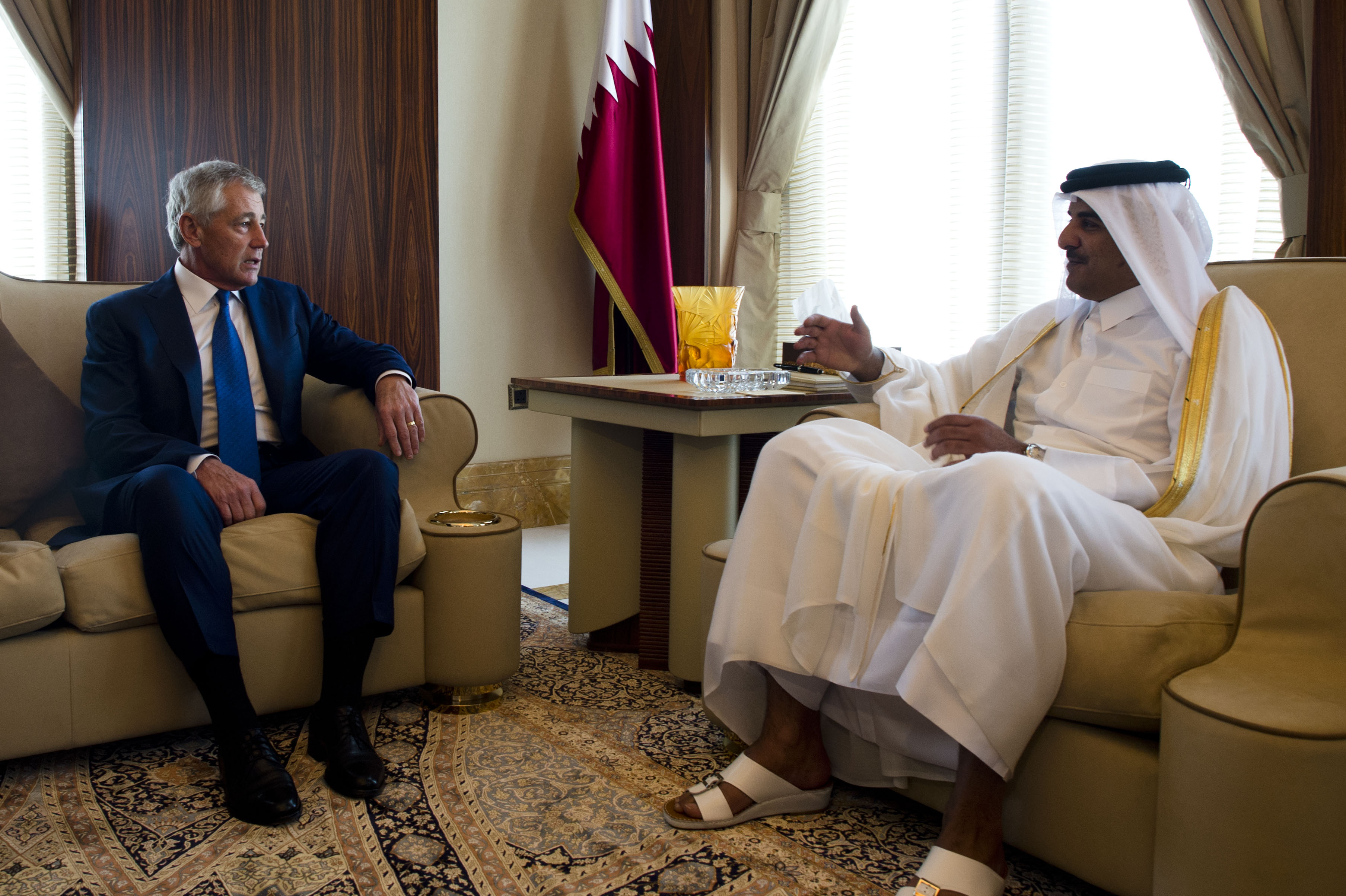 Secretary of Defense Chuck Hagel meets with Sheikh Tamim bin Hamad, Emir of Qatar in Doha, Qatar on December 10, 2013. Hagel met with the Emir to discuss issues of mutual importance. Photo by Erin A. Kirk-Cuomo (Released)